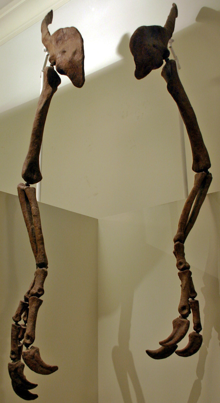 Cast of Deinocheirus mirificus arms, American Museum of Natural History